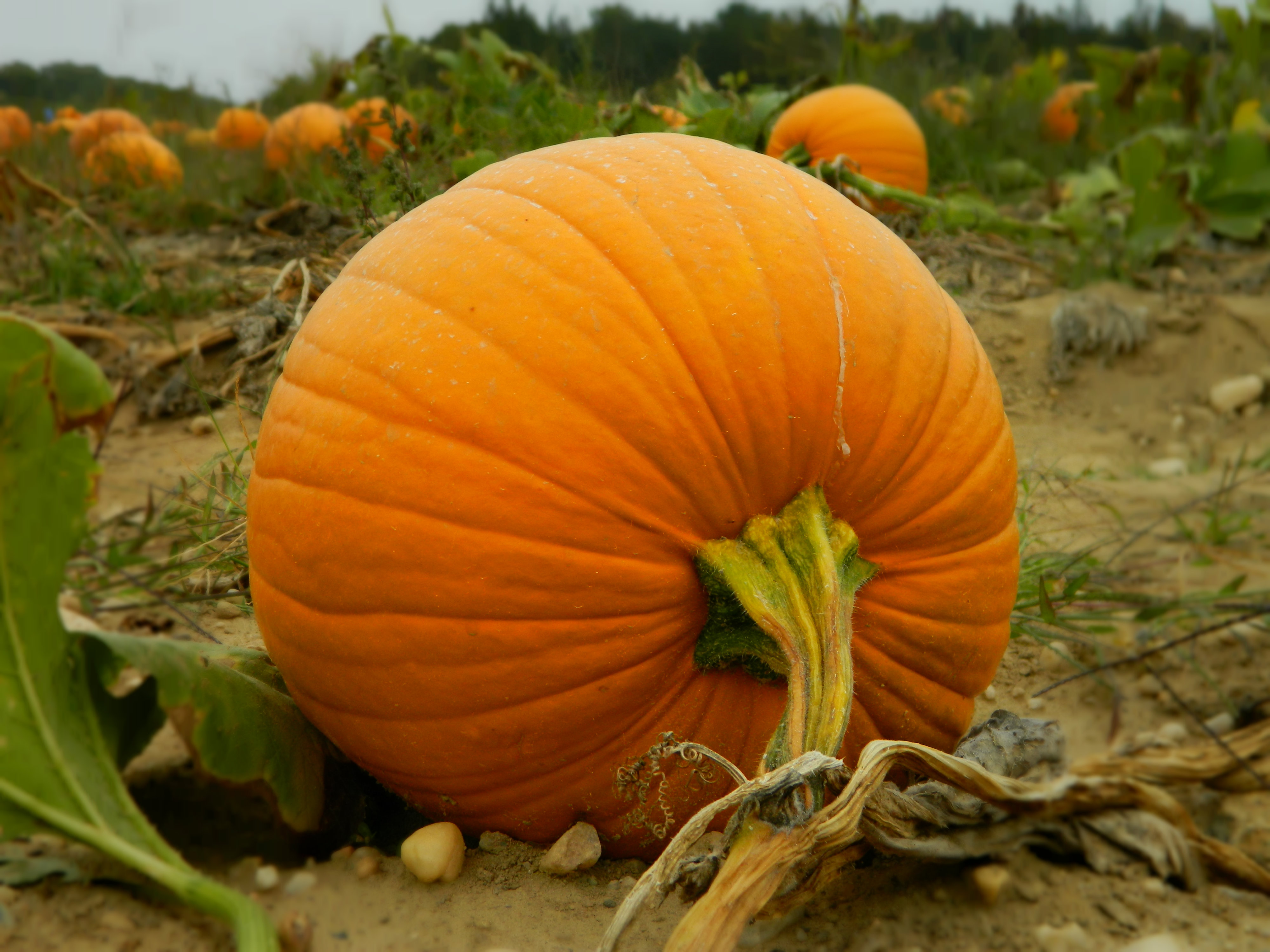 Pumpkin